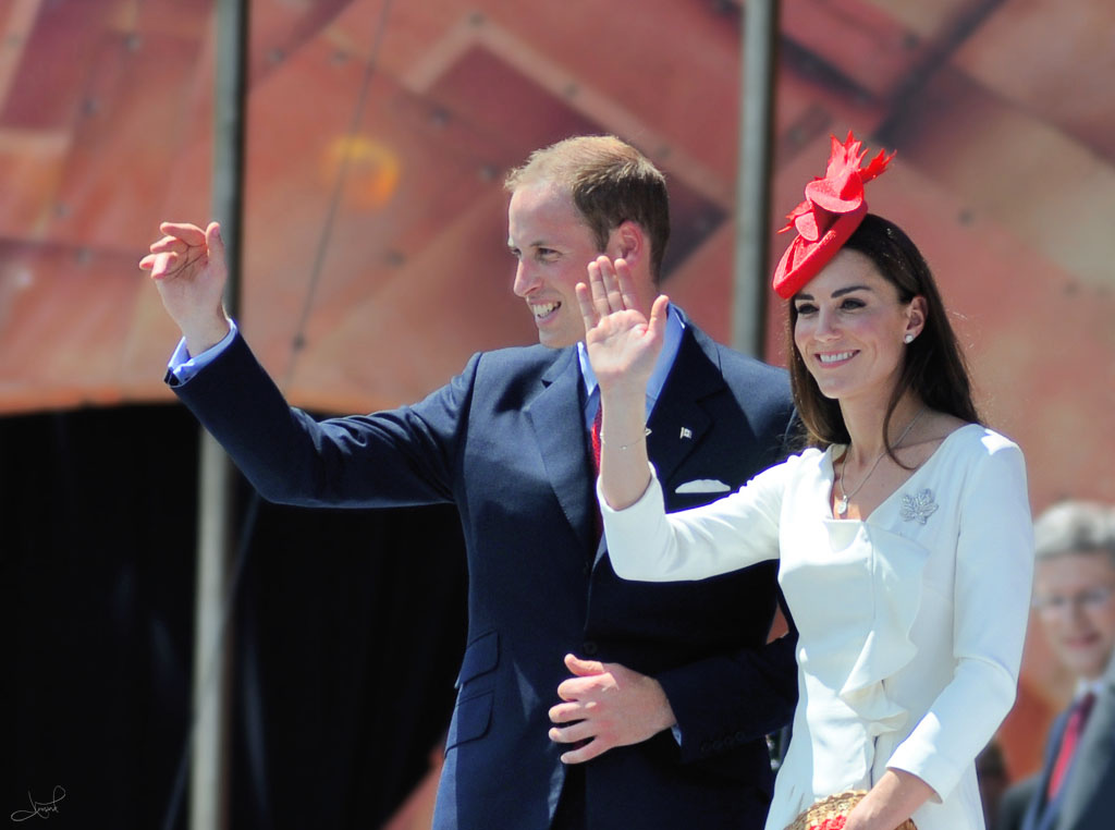 Prince William, the Duke of Cambridge, and Catherine, the Duchess of Cambridge visited Ottawa on Parliament Hill during Canada Day festivities. Prime Minister Stephen Harper is standing in the background.